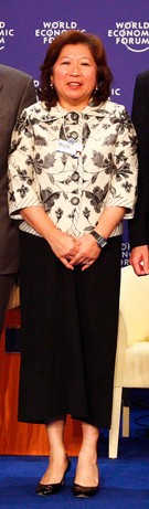 HO CHI MINH CITY/VIETNAM, 7JUN10 -Frans W. Muller, Member of the Management Board, METRO, Germany; Pascal Lamy, Director-General, World Trade Organization (WTO), Geneva; Mari Elka Pangestu, Minister of Trade of Indonesia; Robert Greenhill, Managing Director and Chief Business Officer, World Economic Forum and Hemant M. Nerurkar, Managing Director, Tata Steel, India; Co-Chair of the World Economic Forum on East Asia captured during the World Economic Forum on East Asia in Ho Chi Minch City, Vietnam, June 7, 2010. Copyright World Economic Forum ( Sikarin Thanachaiary